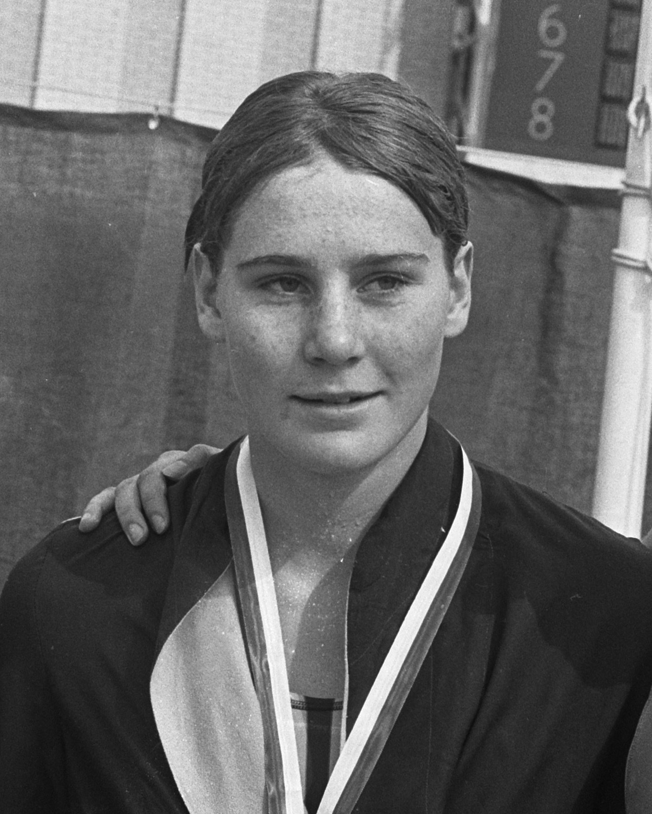 Karen Muir at international competitions